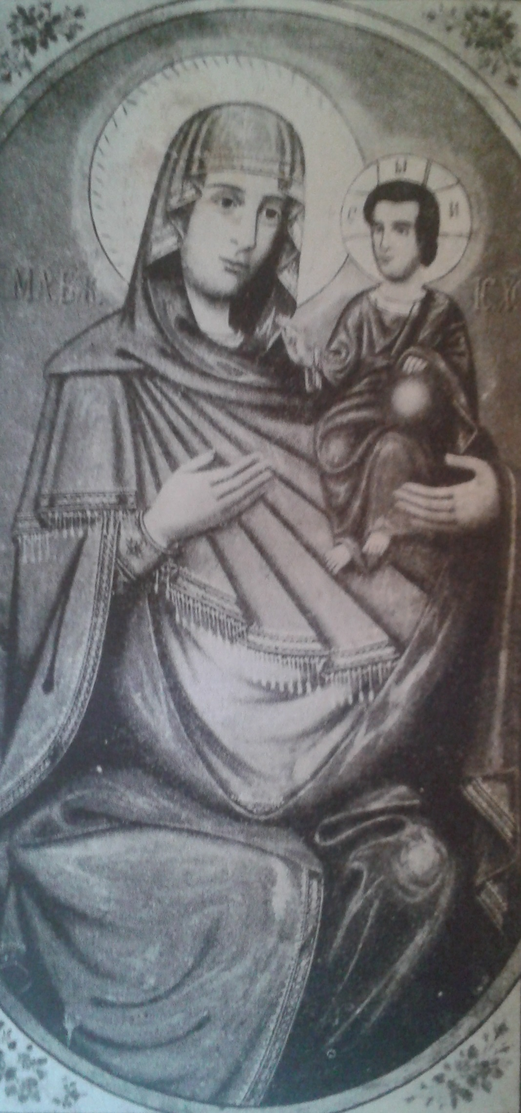 Mother_of_God_Icon_by_Ivan_Konstantinov_from_Sain_Nicholas_Church_in_Petrich